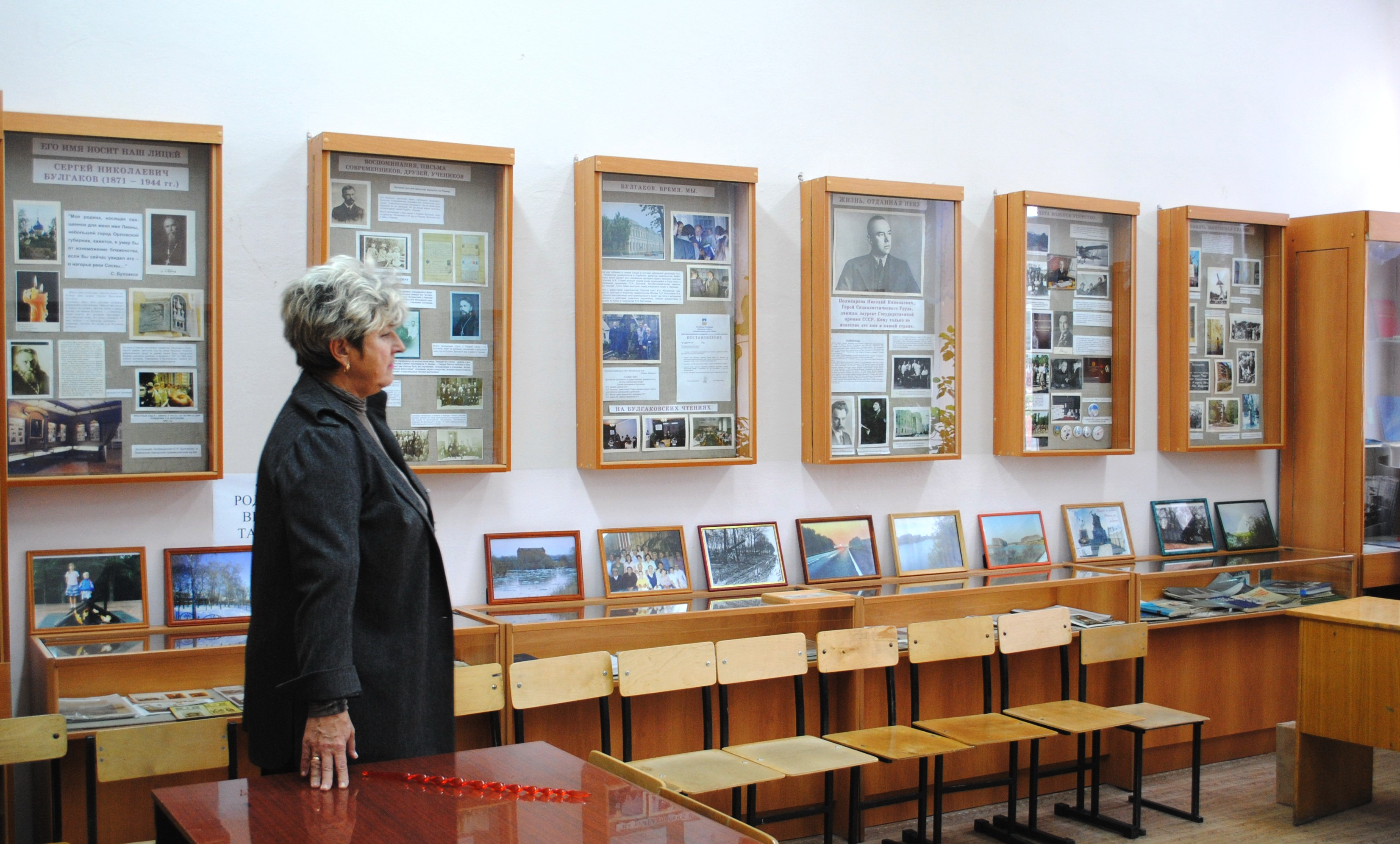 History Museum of Livny